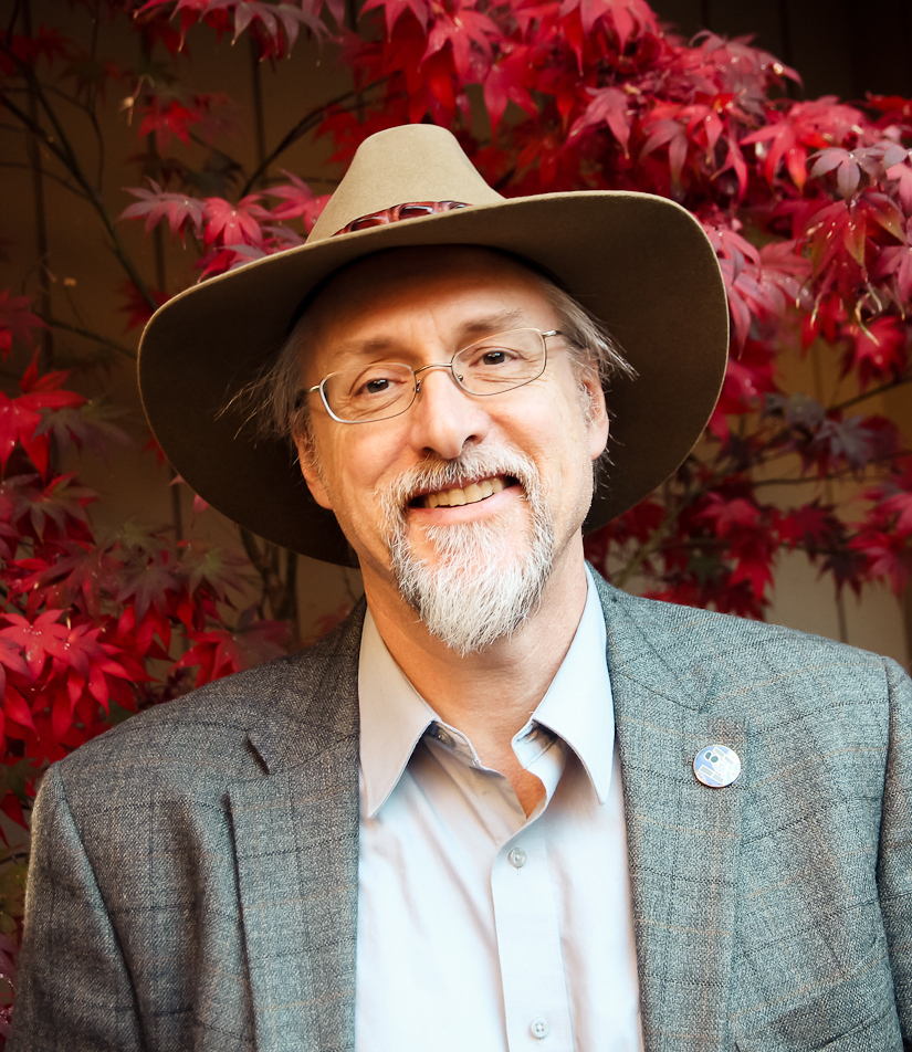 Dr. Marc W. Buie (b. 1958) is the Sentinel Mission Scientist of the B612 Foundation. Note: Dr. Marc W. Buie (b. 1958) is the B612 Foundation's Sentinel Mission Scientist, and as well a U.S. astronomer at Lowell Observatory in Flagstaff, Arizona. Buie received his B.Sc. in physics from Louisiana State University in 1980 and earned his Ph.D. in Planetary Science from the University of Arizona in 1984. He was a post-doctoral fellow at the University of Hawaii from 1985 to 1988. From 1988 to 1991, he worked at the Space Telescope Science Institute where he assisted in planning of the first planetary observations made by the Hubble Space Telescope.